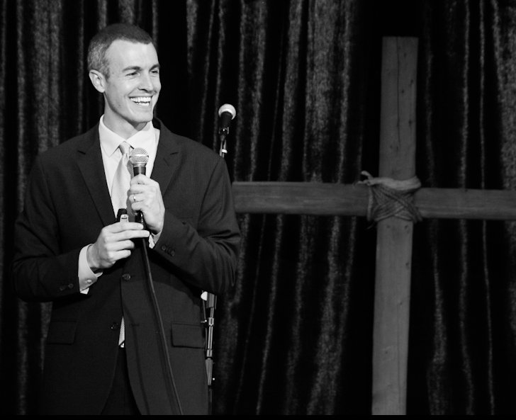 Eric Ludy speaking in front of a cross. He's an American speaker and author.